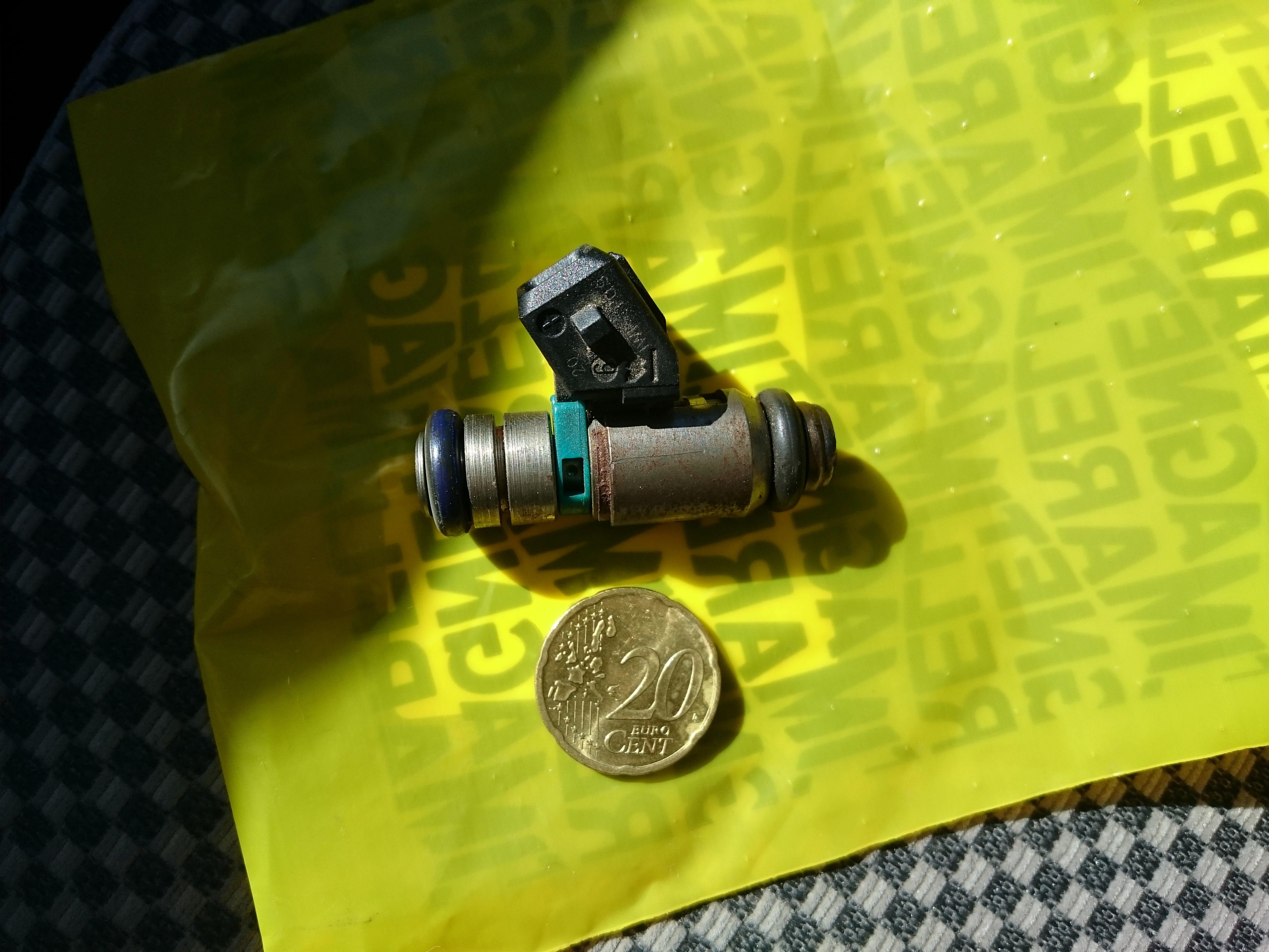 Fuel Injector Valve of an 2005 1.6 16V Fiat Stilo Multiwagon 20€cent coin for Size comparison